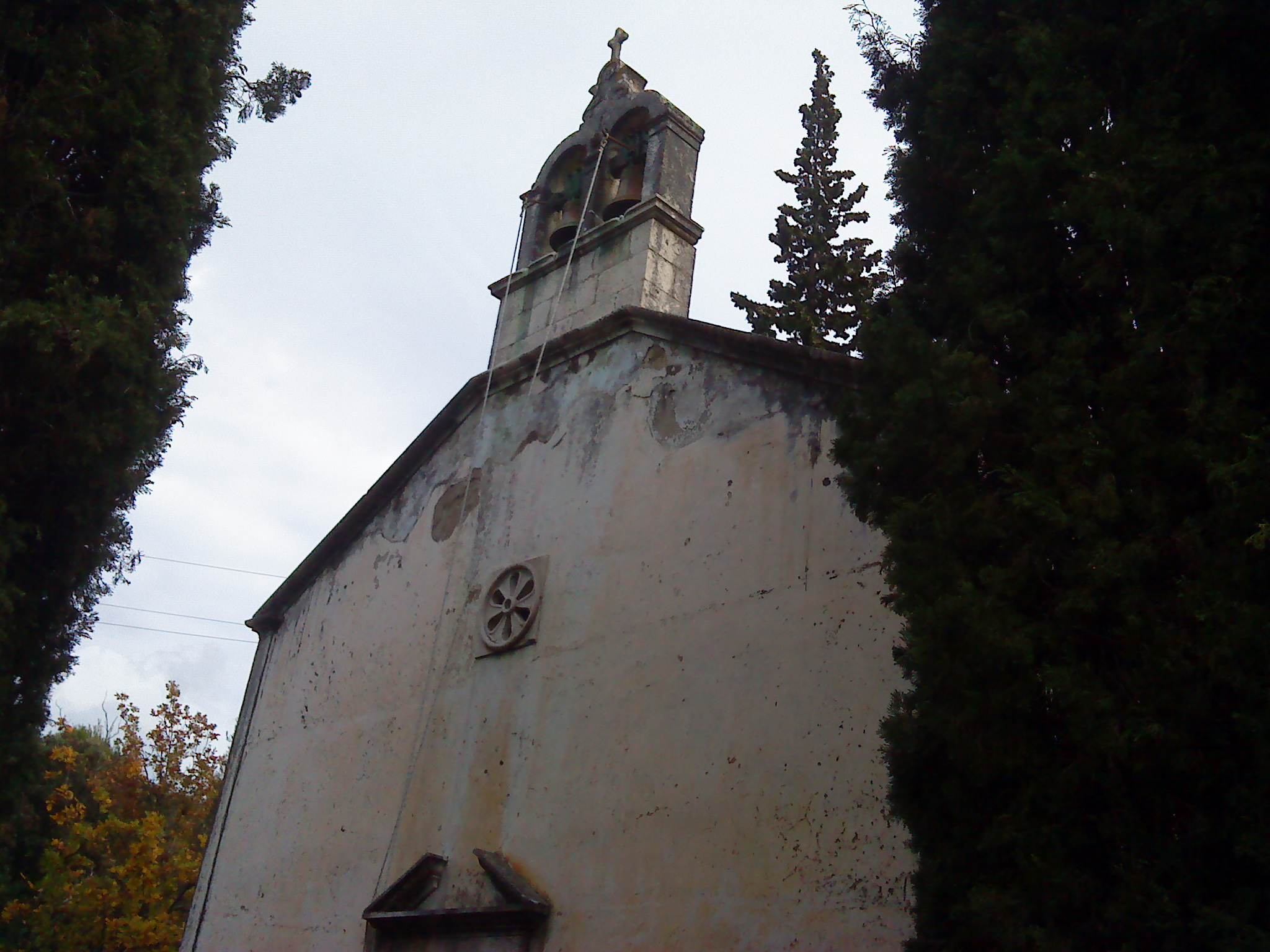 Holy Trinity church in Popova Luka